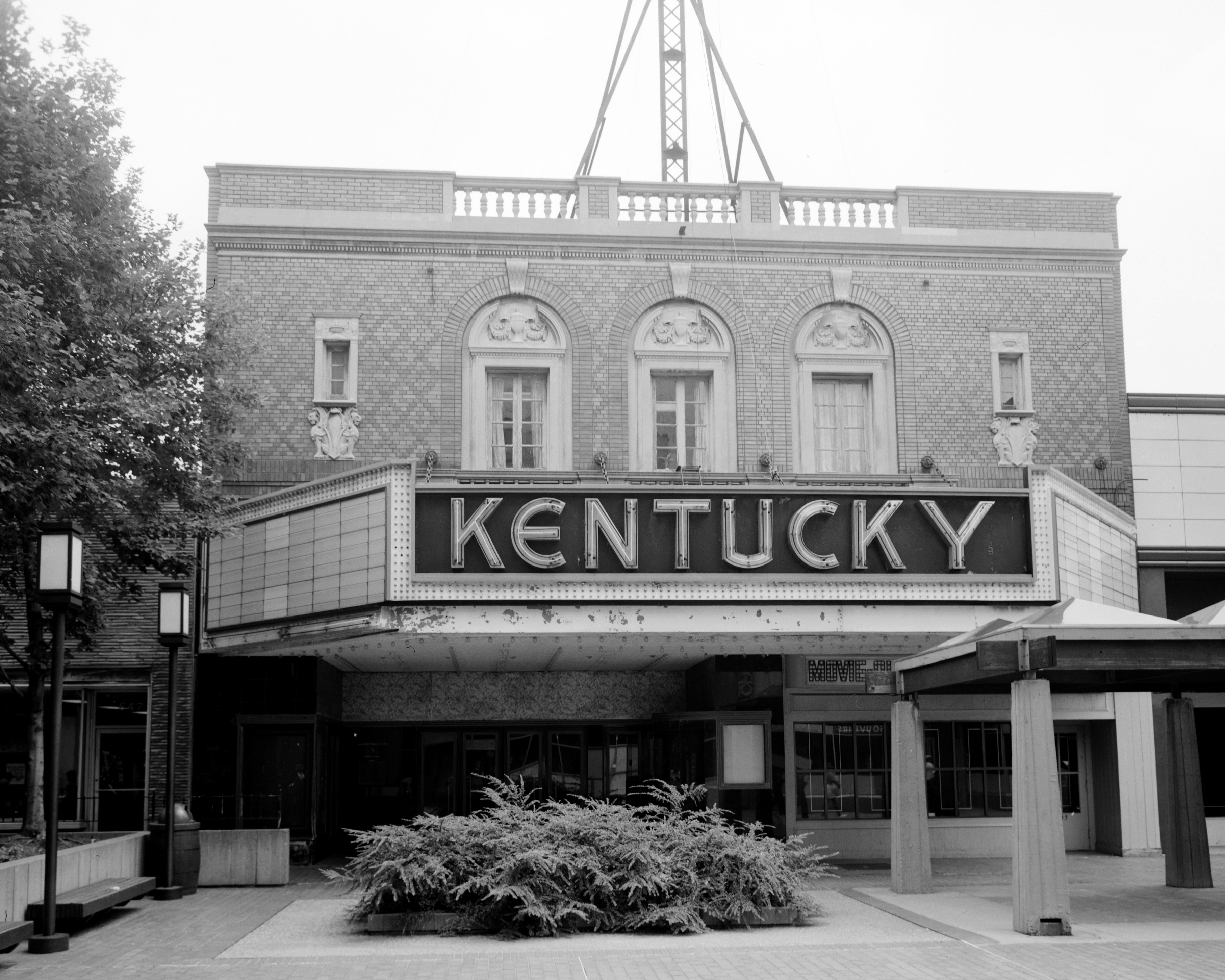 Undated (post-1933) photograph of the Kentucky Theater in Louisville, Kentucky.